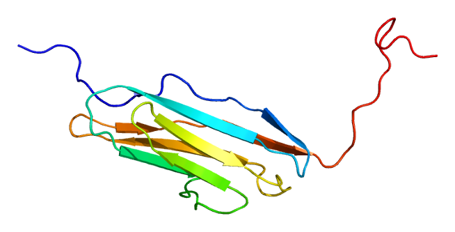 Structure of the MYLK protein. Based on PyMOL rendering of PDB 2cqv.